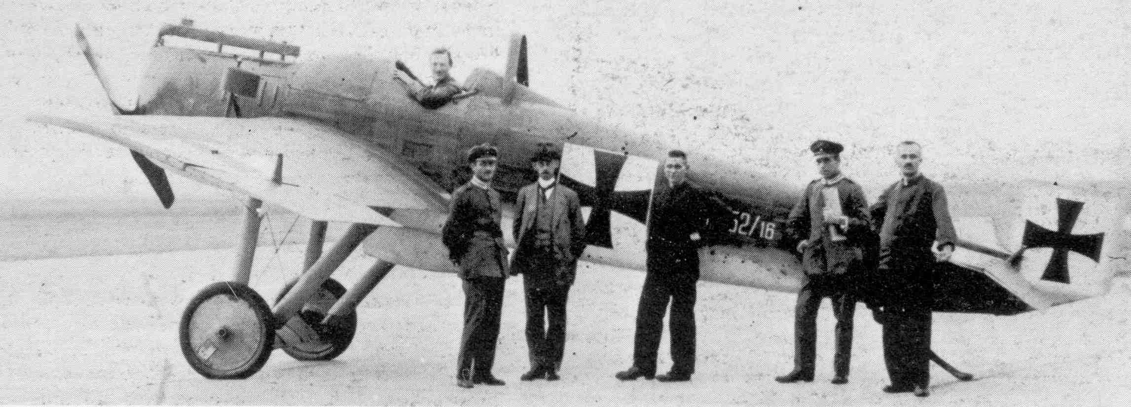 Third-produced Junkers J 2, IdFlieg serial E.252/16